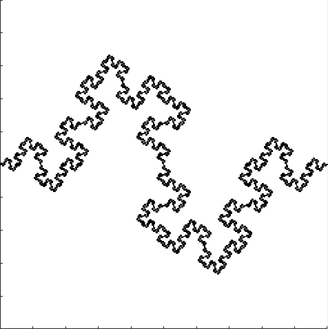 Minkowski sausage. Variant of the von Koch curve with 90º. The Hausdorff dimension of the fractal is 1.5.